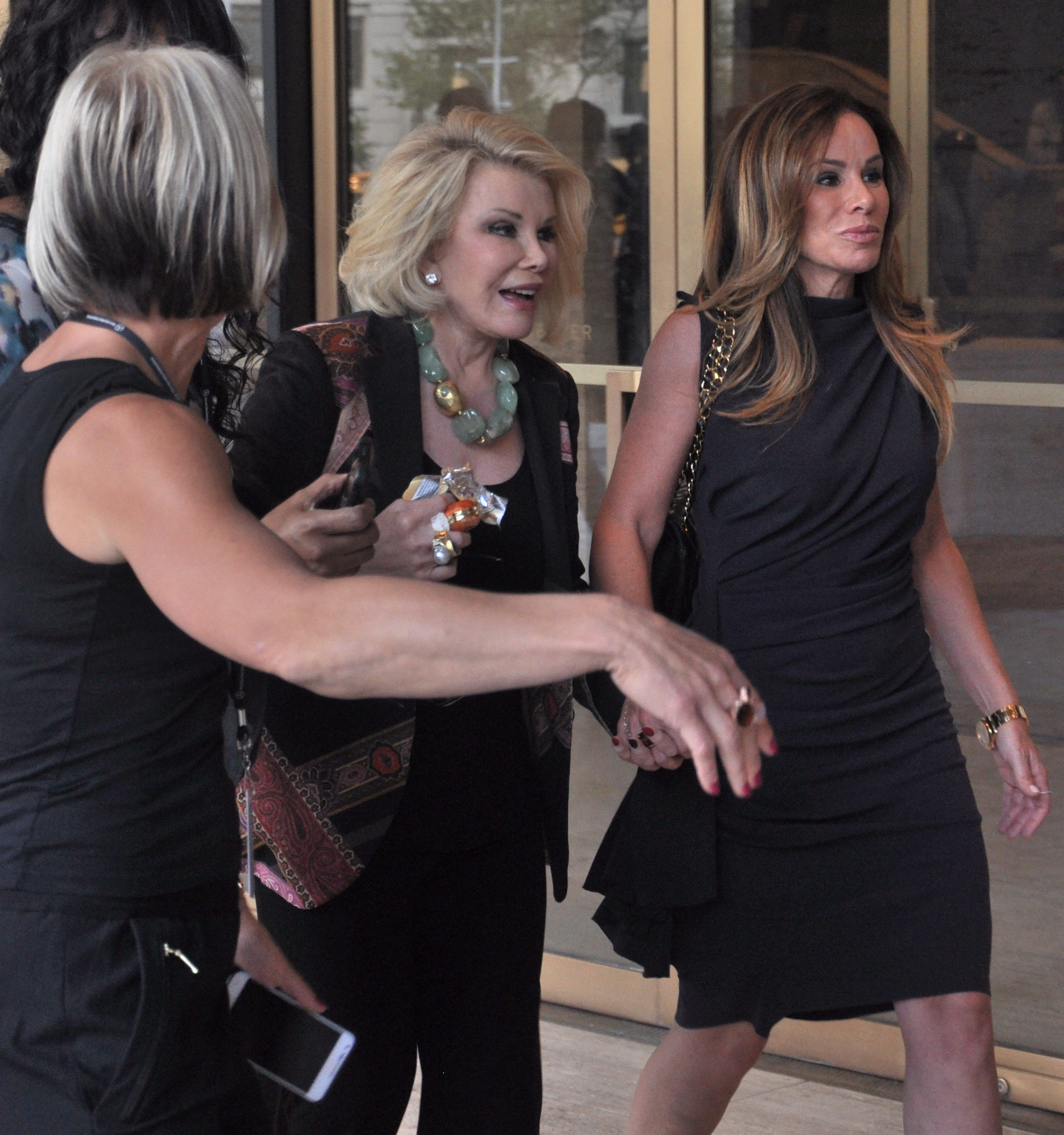 This file has been extracted from another file: Joan Rivers and Melissa Rivers during NY Fashion Week 2012.jpg